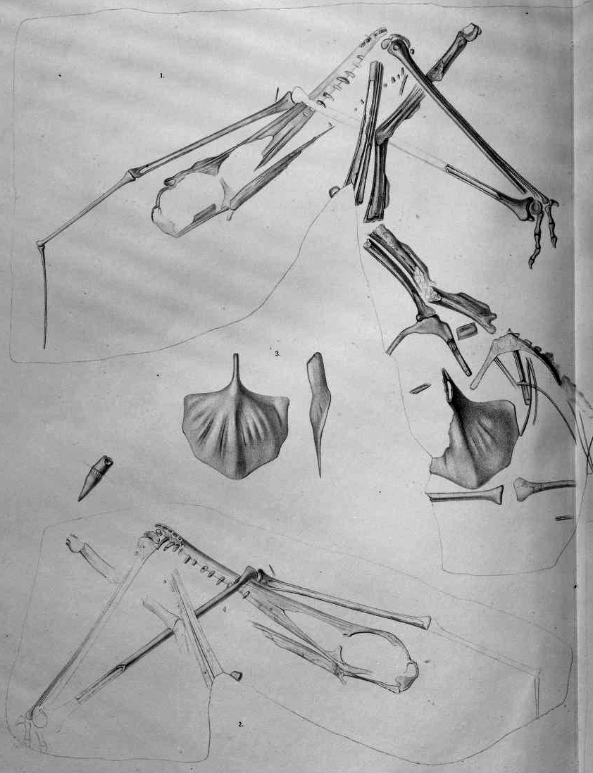 Plate and counter plate of the Ardeadactylus longicollum holotype. From vol. 4 of 'Zur Fauna der Vorwelt'.